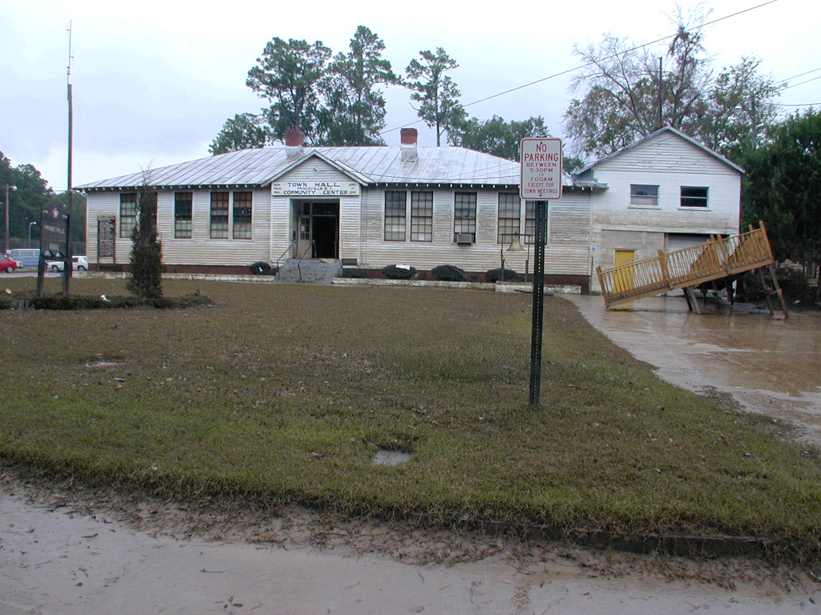 Princeville, NC, September 27, 1999 -- In Princeville, North Carolina the Town Hall sits silent, empty and wet as floodwaters in Edgecomb County finally begin to recede. Everything in the town is covered with a layer of foul smelling mud and silt. Photo By DAVE SAVILLE/ FEMA News Photo